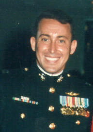 Paul Crespo, Republican candidate for Florida's 25th Congressional District, in formal dress as a US Marine captain